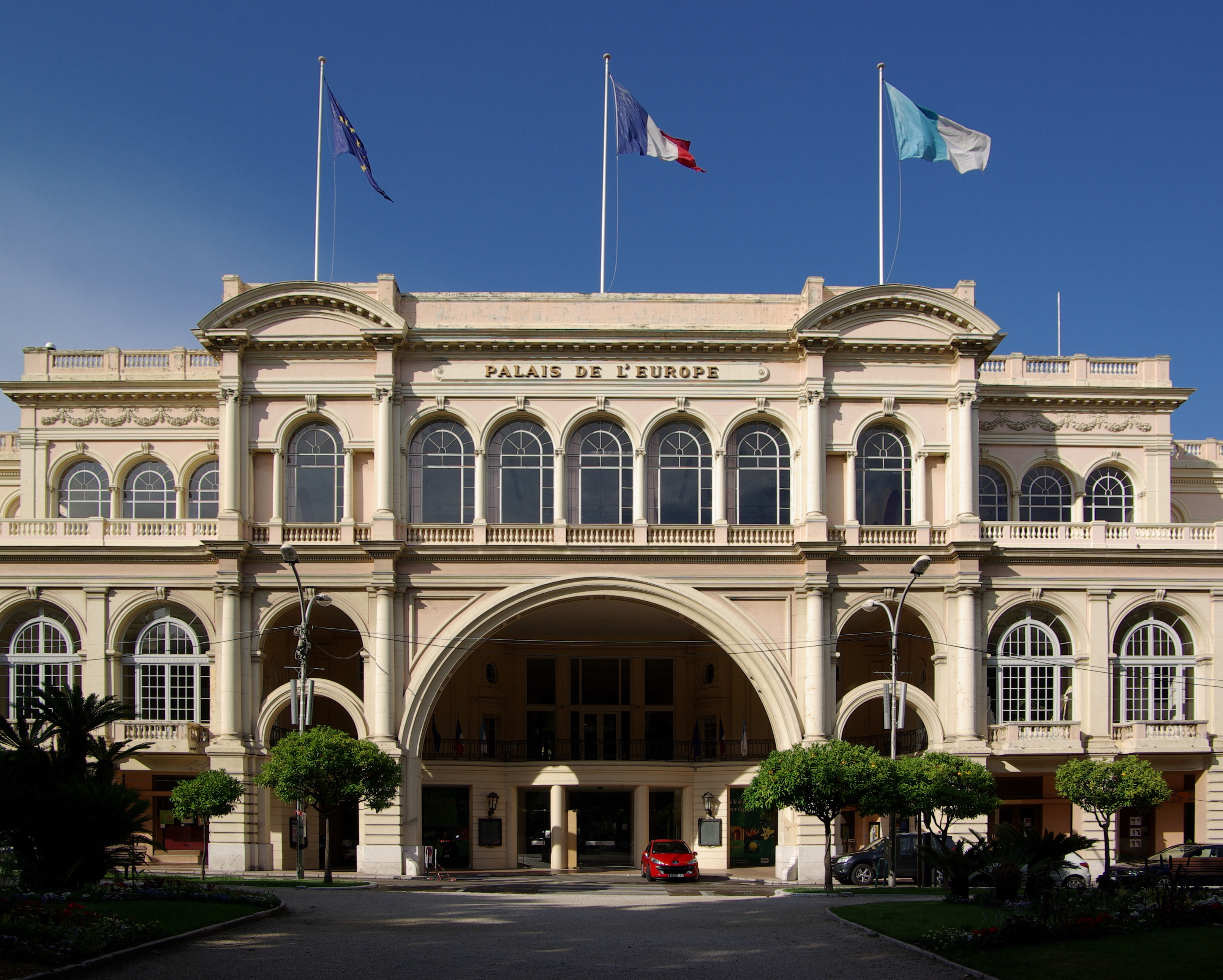 France, Menton, Palais de L'Europe